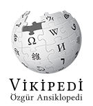 Wikipedia logo 2.0